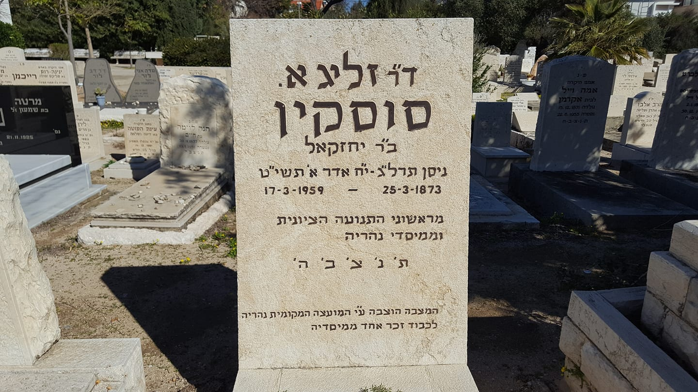 מצבת קברו של זליג סוסקין בבית העלמין בנהריה צילום: אלי אלון